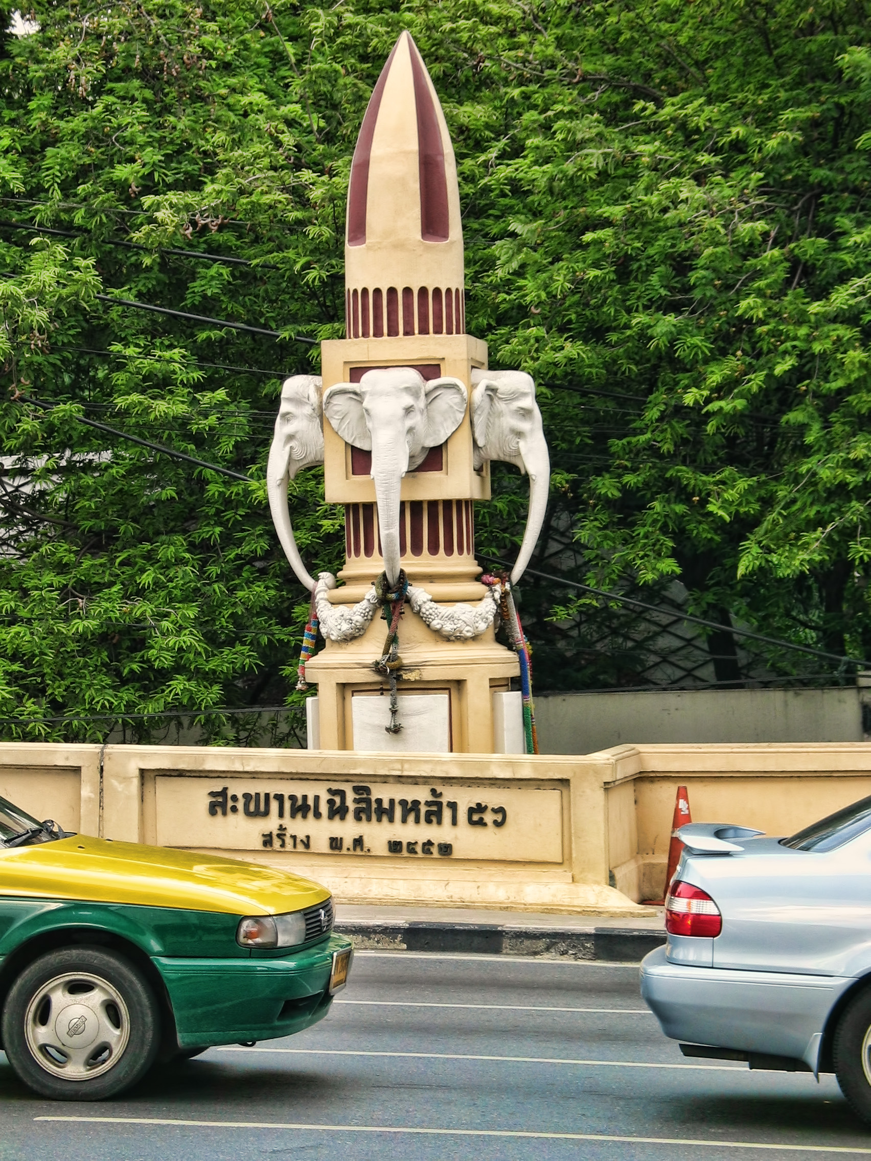 Saphan Chaloem La 56 (Chaloem La 56 Bridge) over Khlong Saen Saeb was built in 1908 in the reign of King Rama V.. Its name commemorates the king's 56th birthday, but usually called "Saphan Hua Chang" ("Elephant Head Bridge").